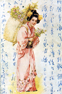 Image of Ariadna (Ariadna Anatolyevna Kovalskaya) in the letter that Hirose Takeo wrote to his sister-in-law Harue.